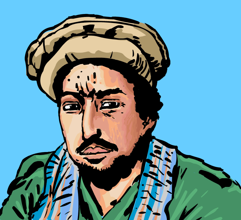 Ahmed Shah Massoud (Commandant of the North alliance, Afghanistan)